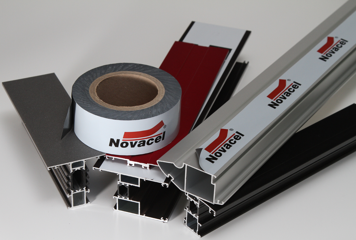 Novacel 4233: Black/white adhesive film, 70µm, for the protection of aluminium profiles, lacquered or not, 6-months outdoor resistance.